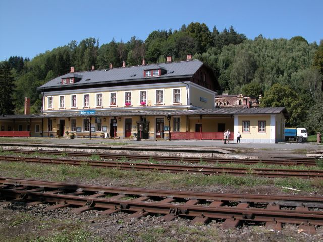 Bečov nad Teplou Railway Station